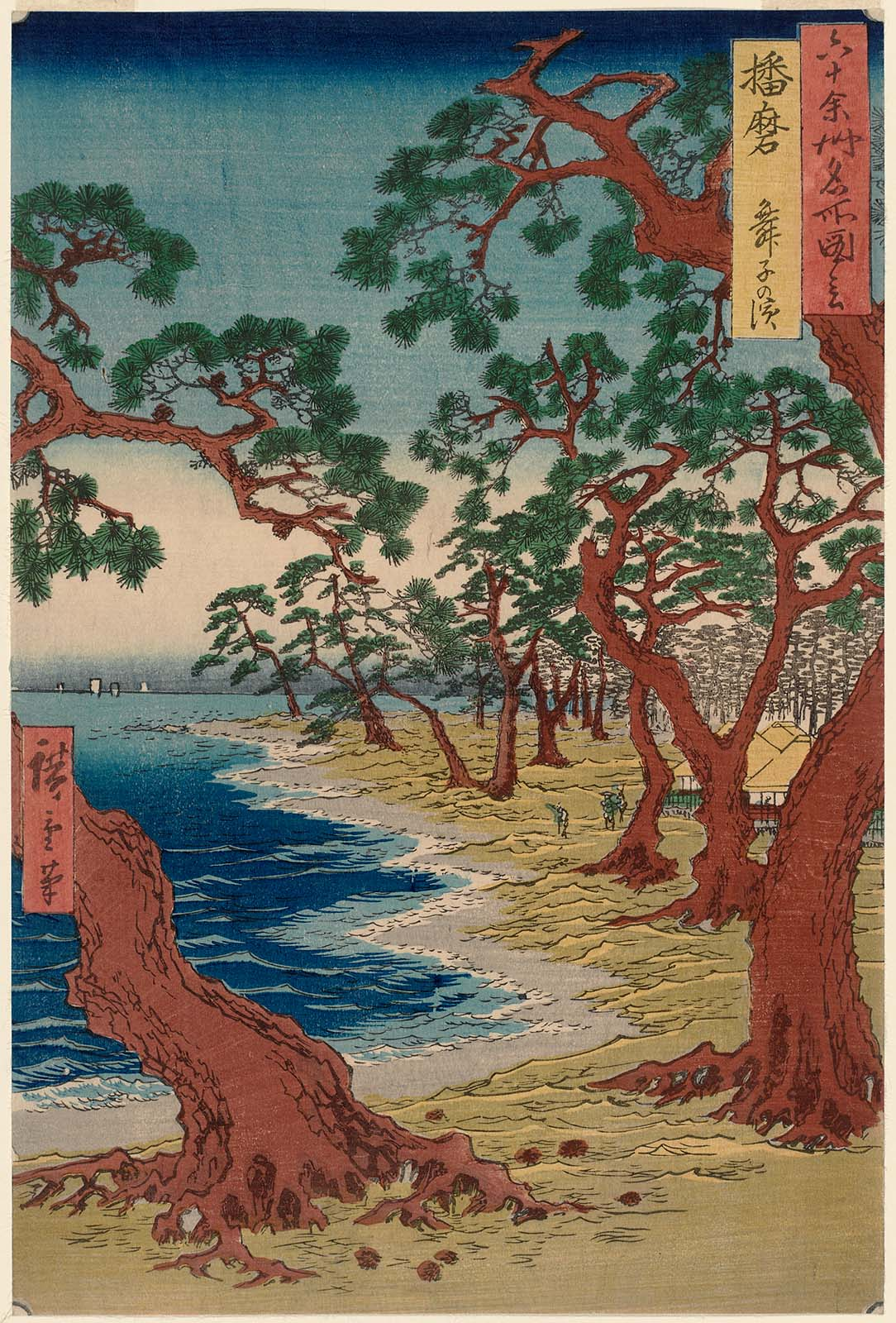 Harima Province: Maiko Beach (Harima, Maiko no hama), from the series Famous Places in the Sixty-odd Provinces [of Japan] ([Dai Nihon] Rokujûyoshû meisho zue)